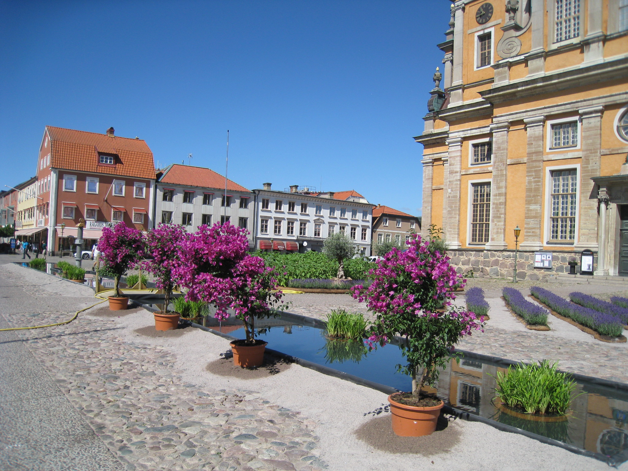 Kalmar Cathedral, Kvarnholmen, Kalmar was built in three phases after drawings by castle architecture Nicodemus Tessin the older. The church started to be built in 1660. It was scarcely half finished in 1682 and it was completely finished in 1703.